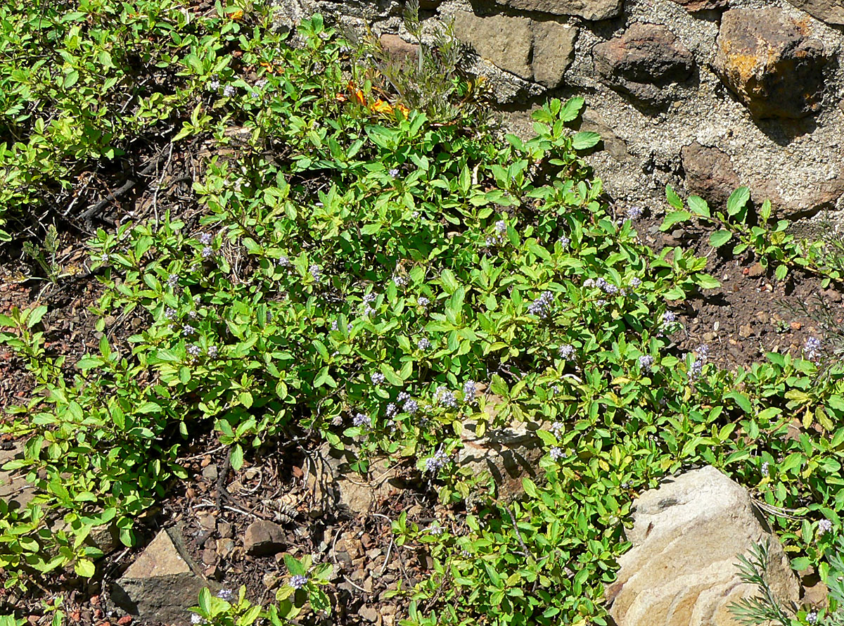 Photo of Ceanothus diversifolius at the Regional Parks Botanic Garden, Berkeley, California